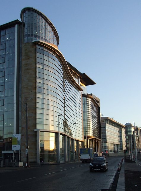 The Broomielaw Modern architecture overlooking the Clyde on the edge of Glasgow's financial quarter.